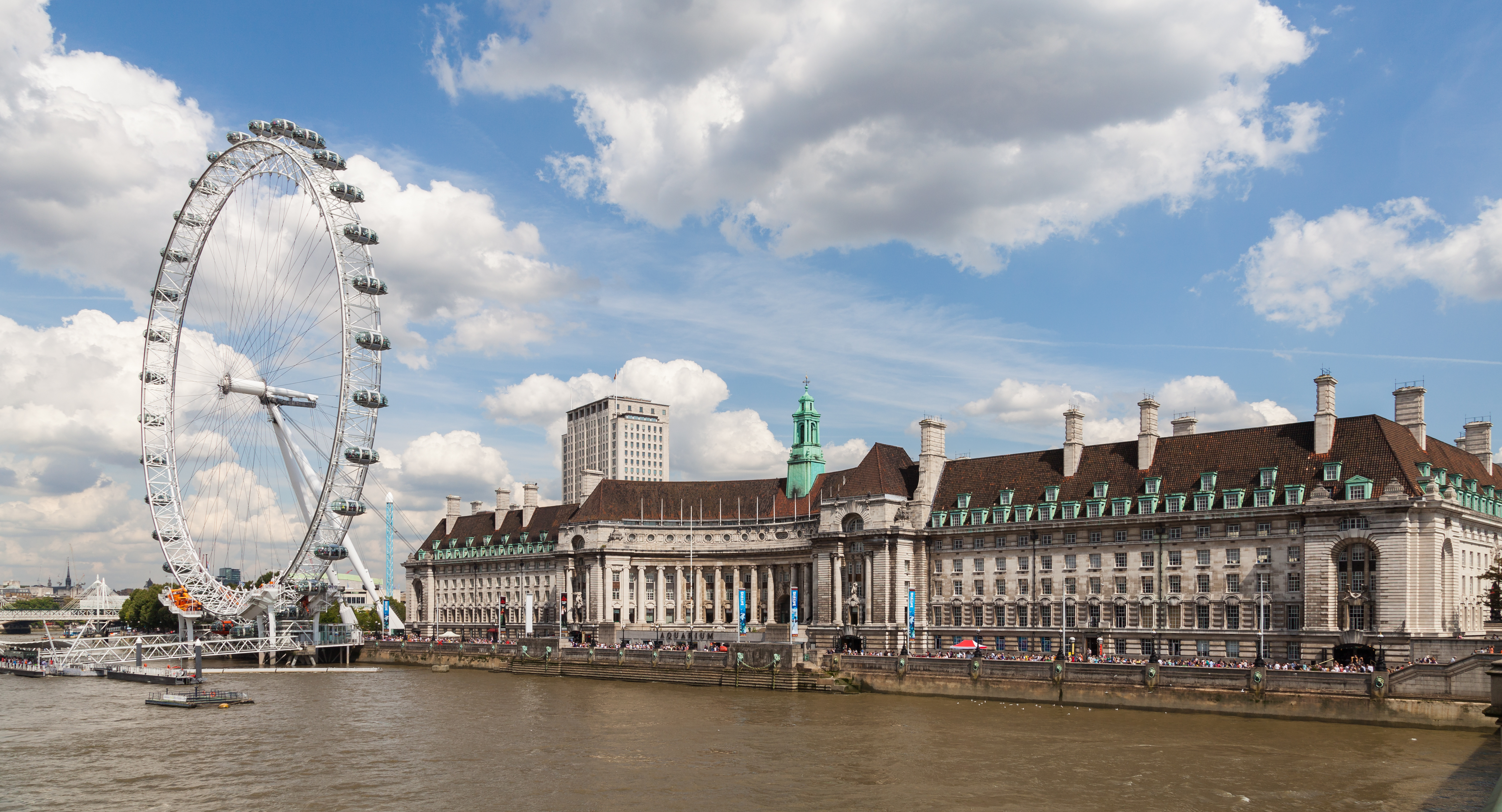 County Hall, London, England